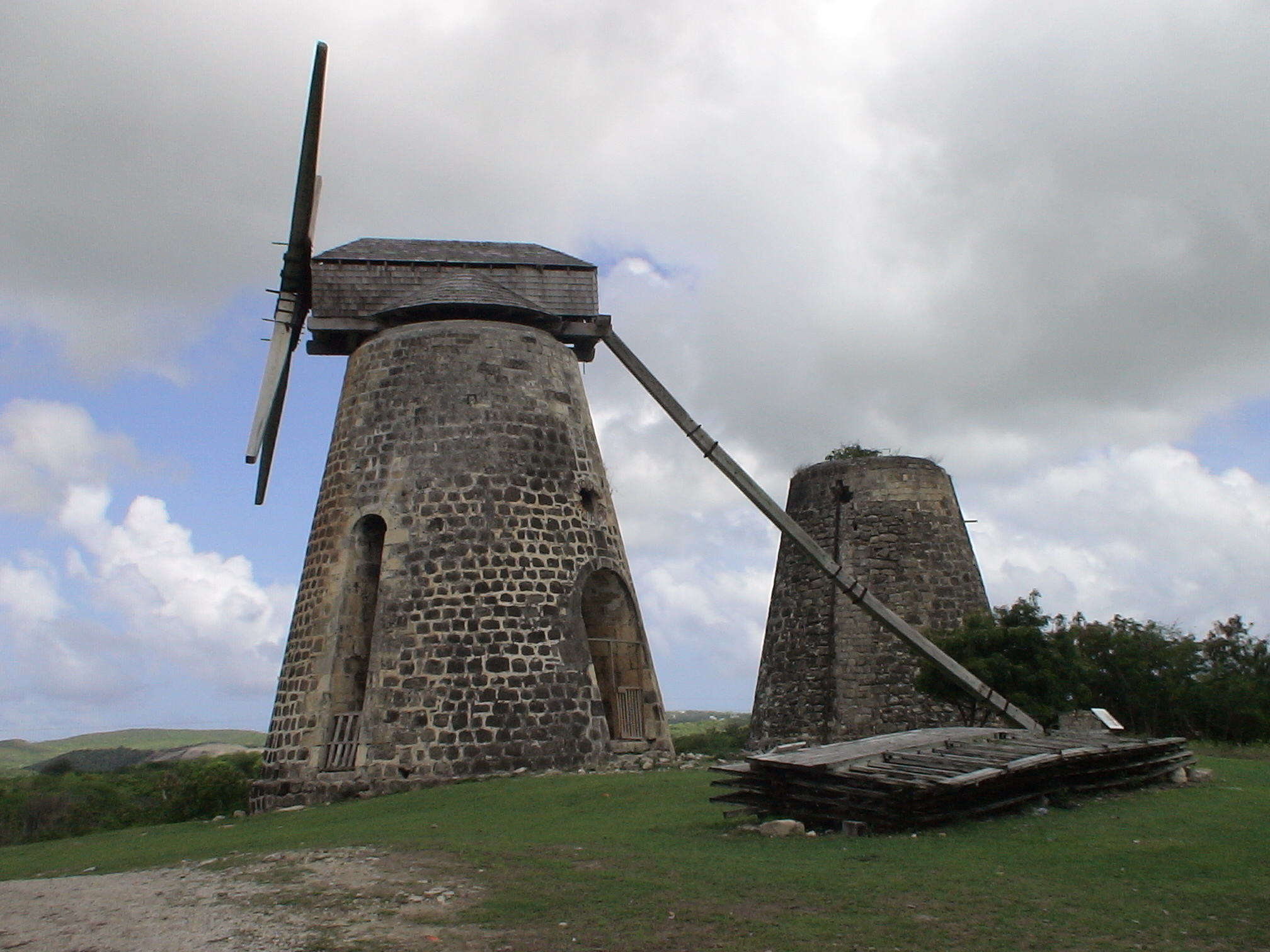 Betty's Hope windmills